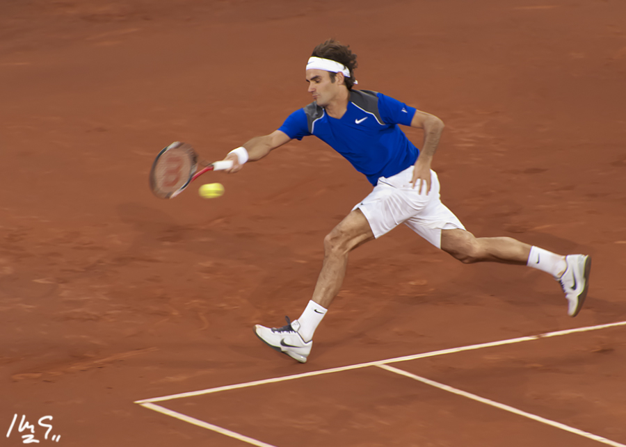 Roger Federer at the 2011 Madrid Open